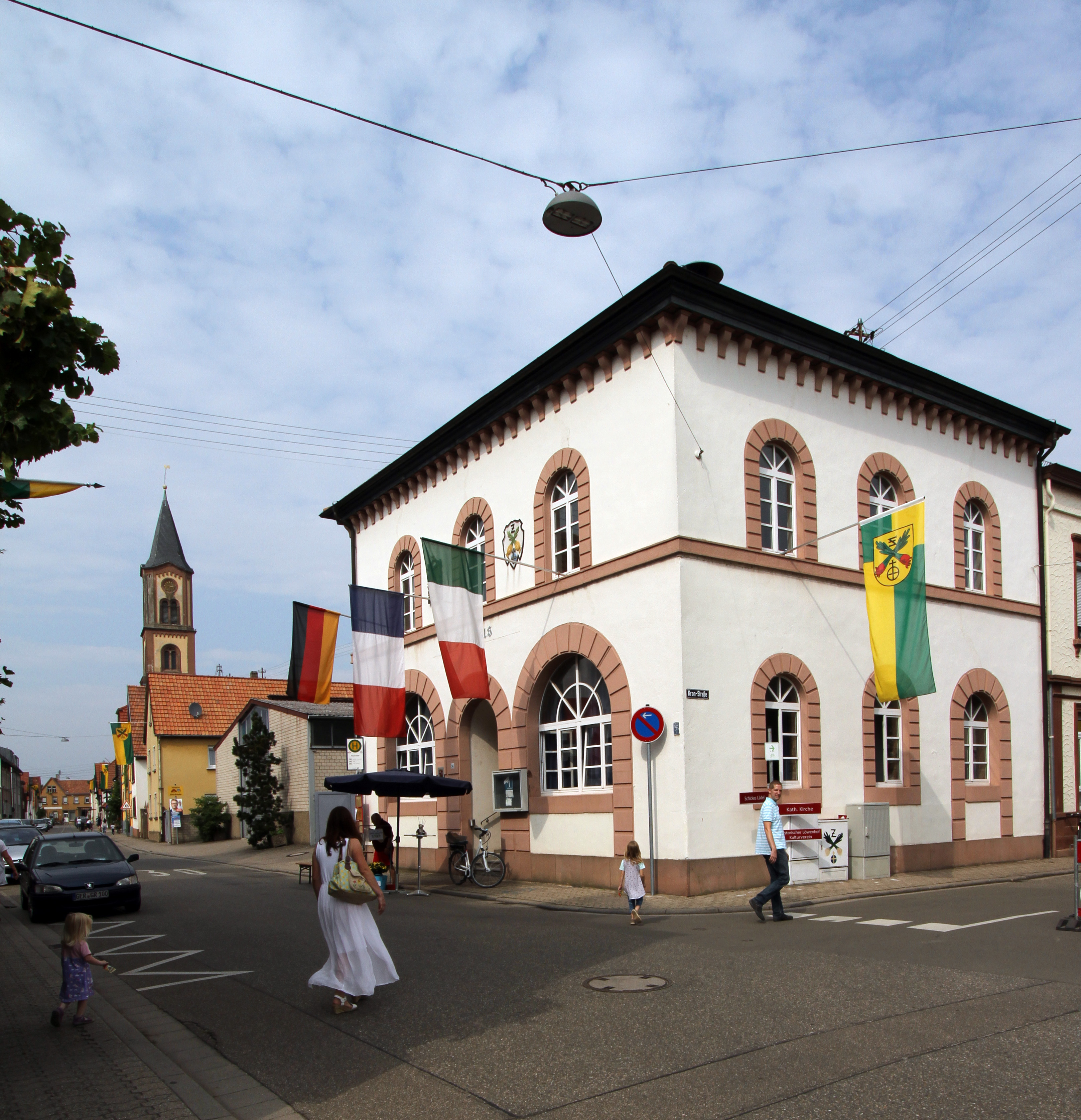 Cultural heritage monument in Zeiskam